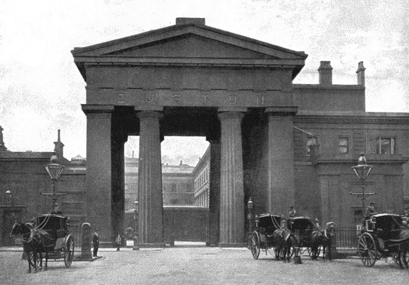 Photograph of the Euston Arch, London